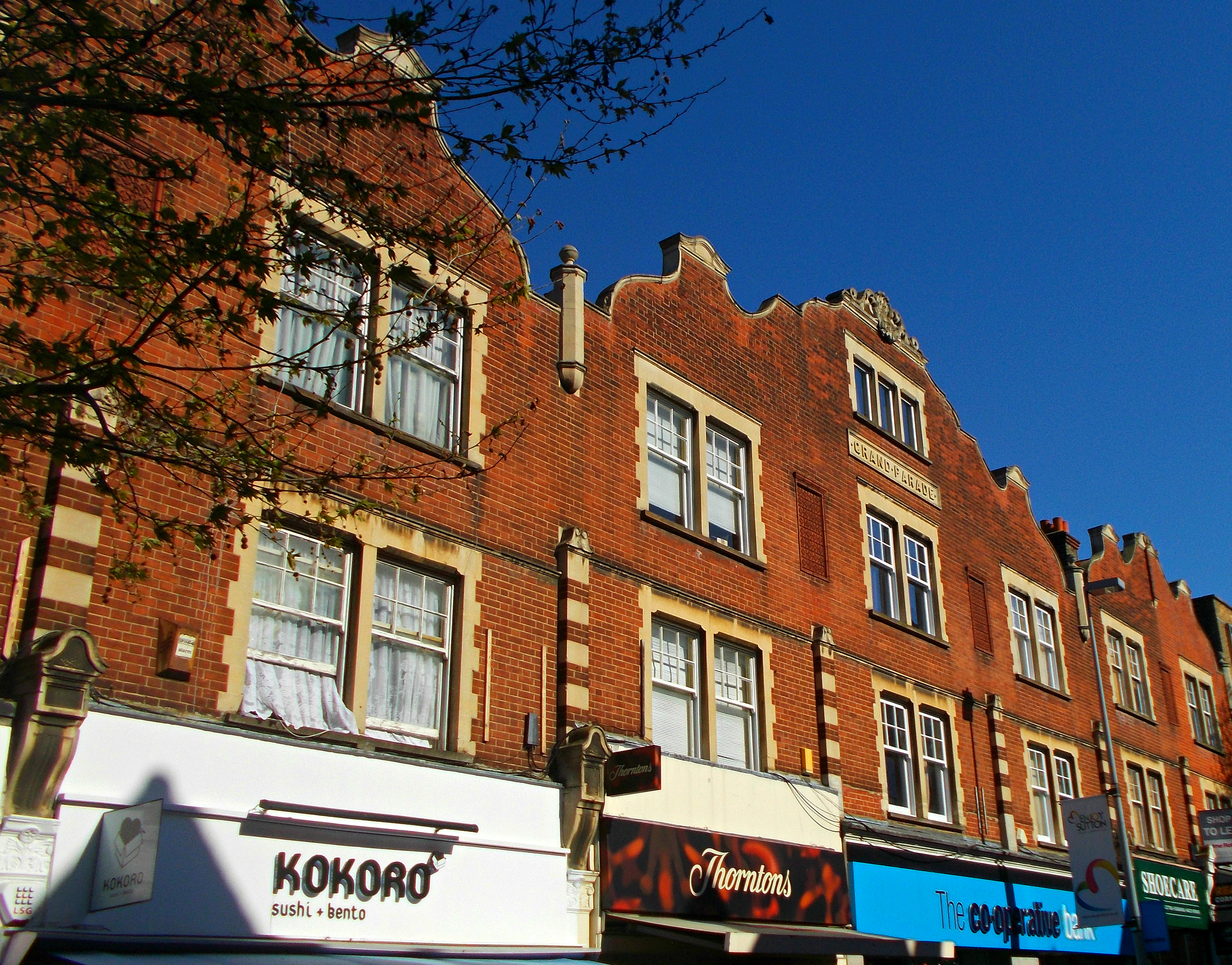 Sutton's high street nicely lit up in the sun. Sutton is 10 miles from central London.